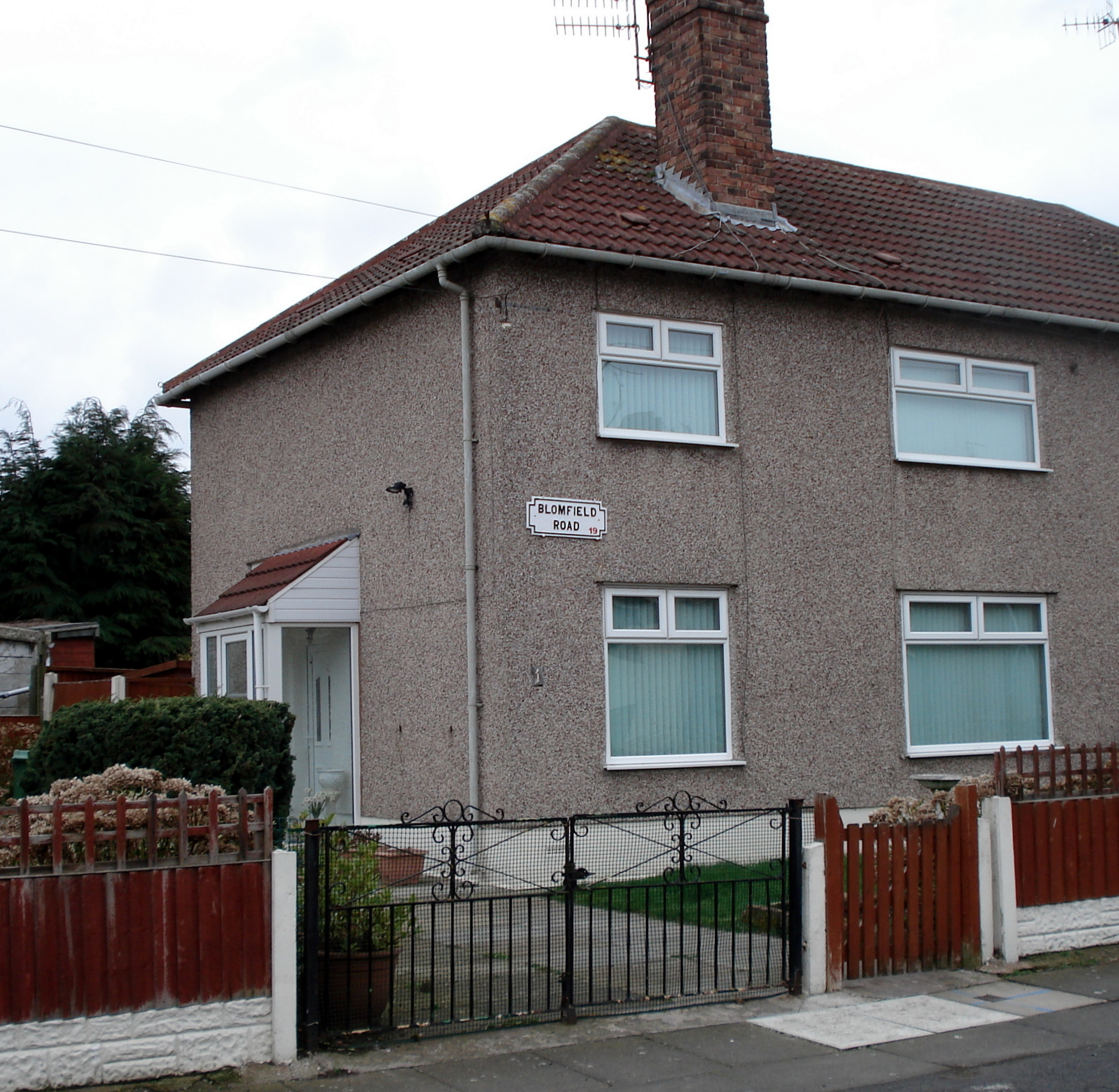 A photo of 1 Blomfield Road, Liverpool, where John Lennon's mother lived at the time of her death.